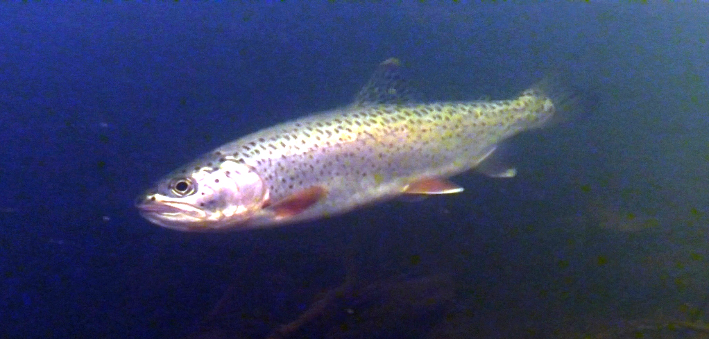 This is an image shot using a gopro camera in Fanno Creek in the headwaters.